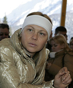 Svetlana Gladysheva in the cafe at the Krasnaya Polyana ski resort.